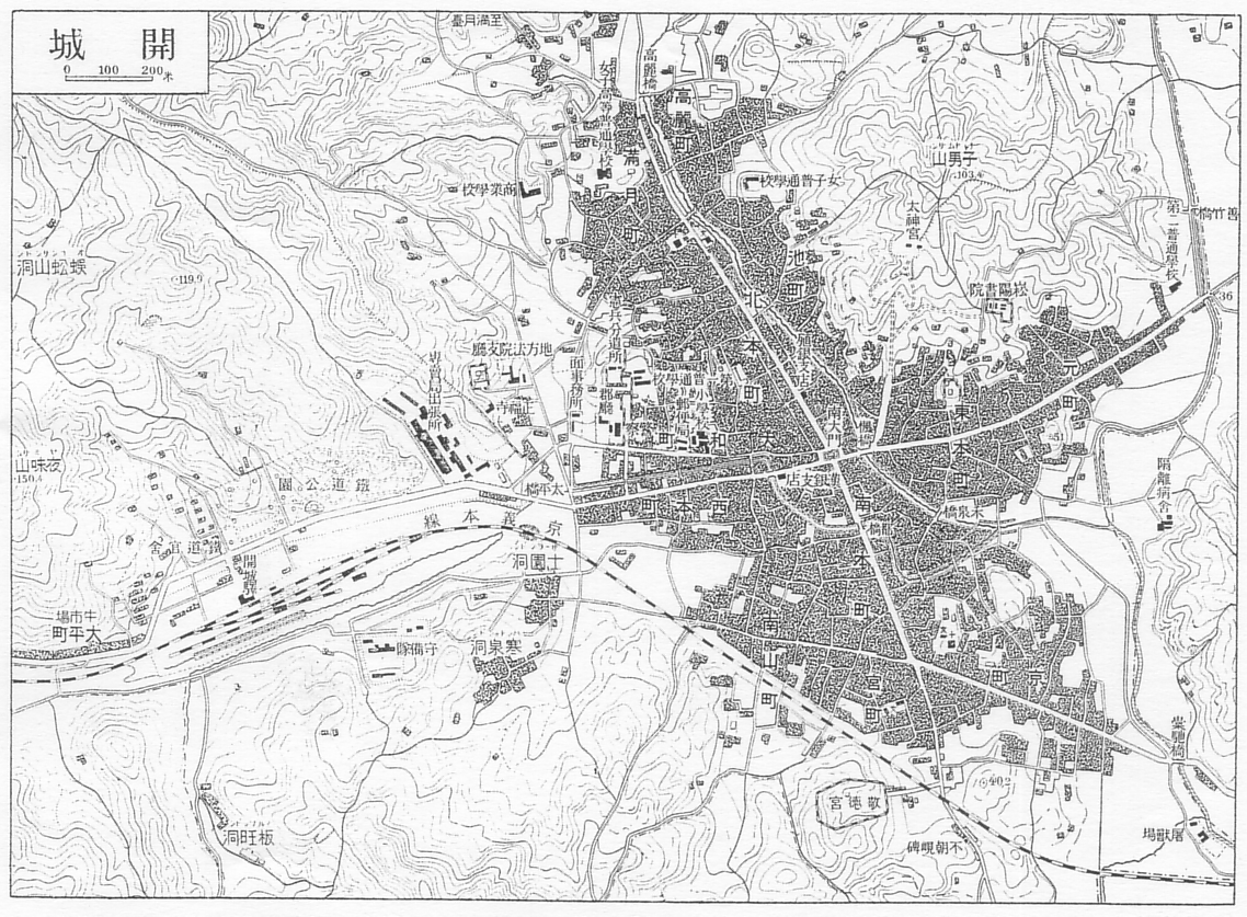 Kaijo(Kaesong) map circa 1930